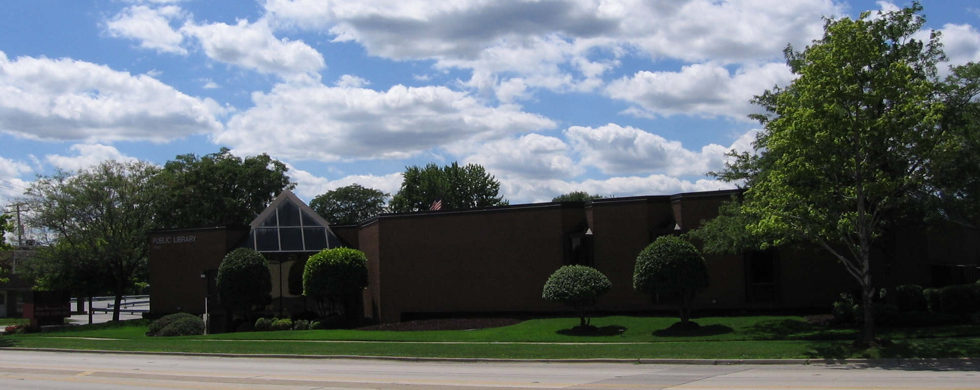 This is a photograph of the Alsip-Merrionette Park Library located in Alsip, Illinois.